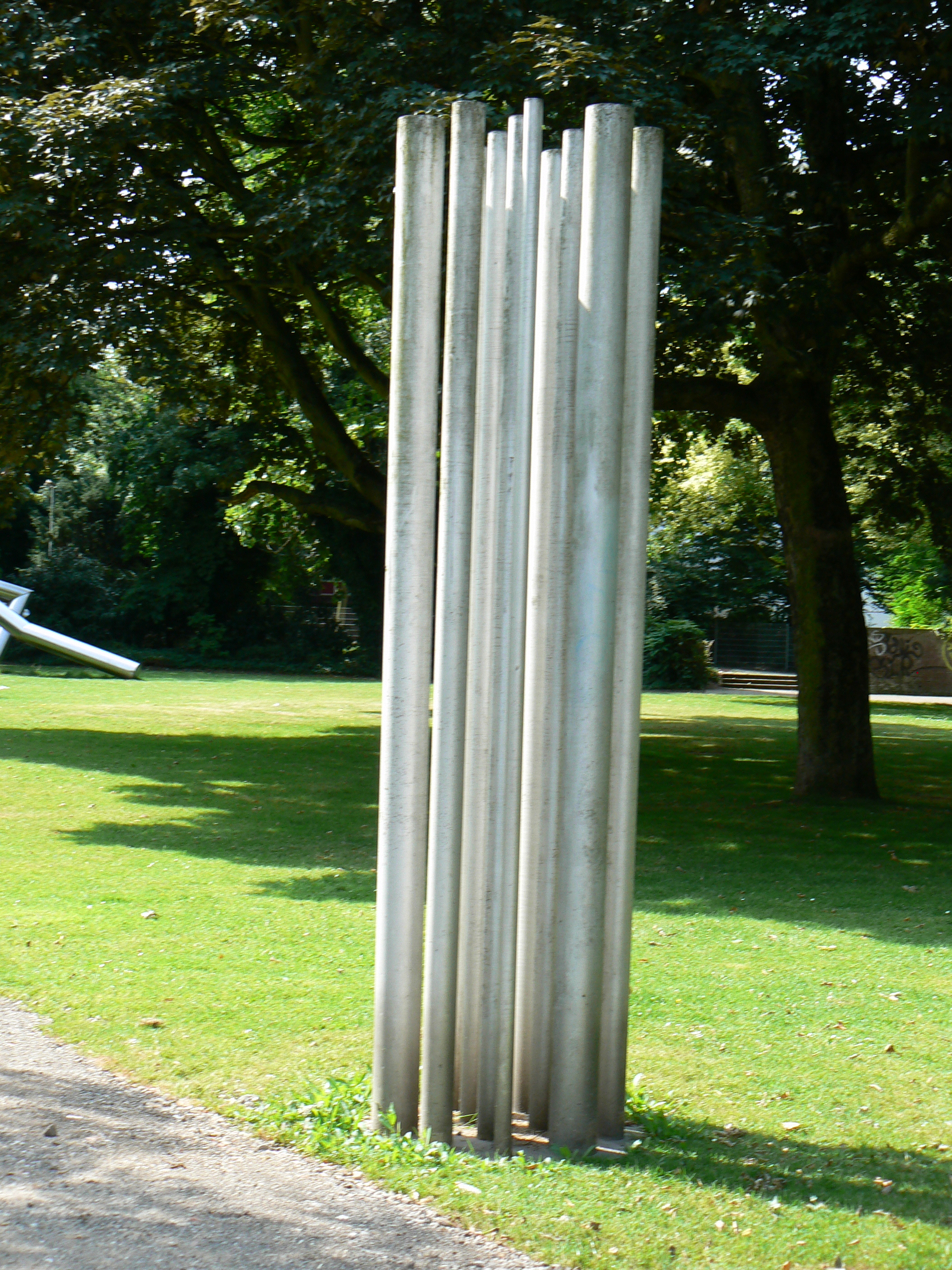 sculpture Plastik I/67 (1967) by Ernst Hermanns in Duisburg/Germany